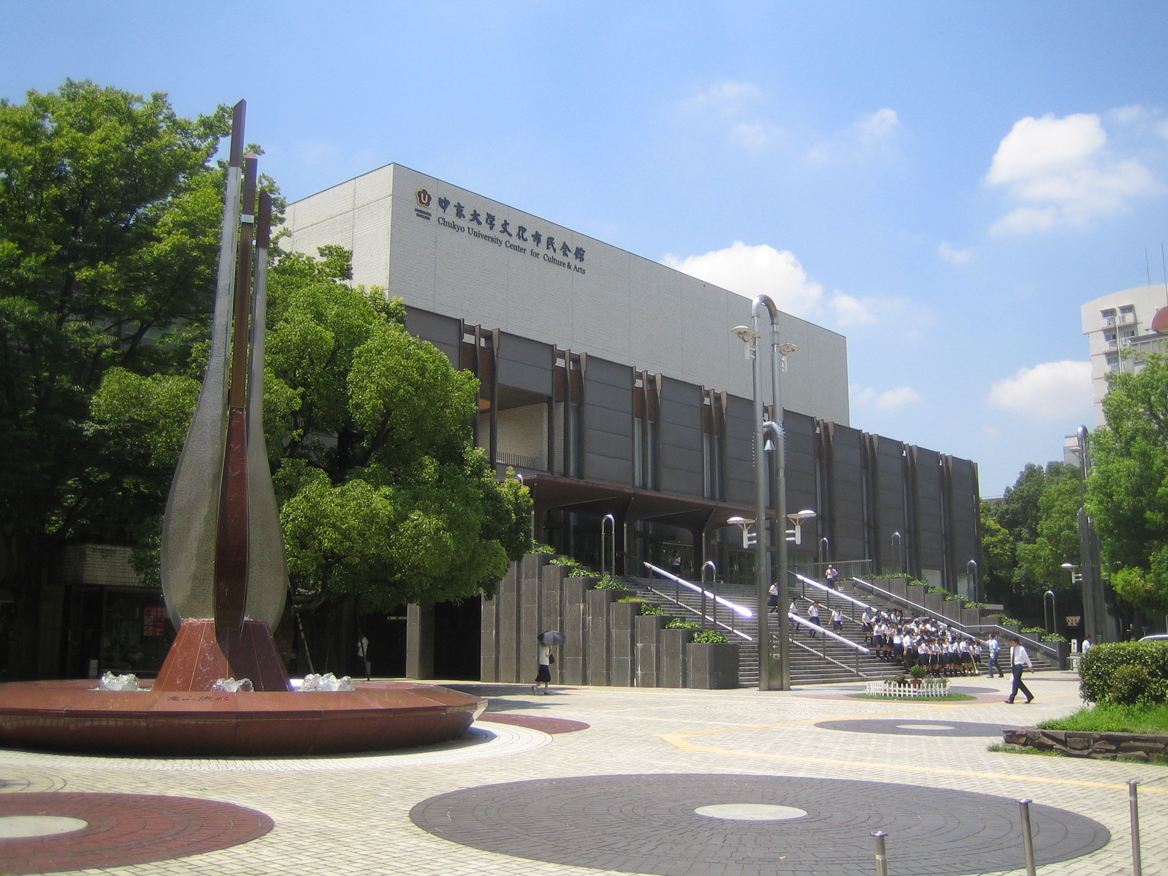 名古屋市民会館。中京大学が命名権を取得、2007年7月1日より「中京大学文化市民会館」と称する。愛知県名古屋市中区金山 Nagoya Civic Hall (名古屋市民会館), as known as Chukyo Univ. Center for Culture & Arts (中京大学文化市民会館), in Naka, Nagoya, Aichi|Nagoya, Aichi, Japan